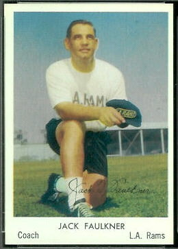 A 1959 promotional image of Los Angeles Rams coach Jack Faulkner.